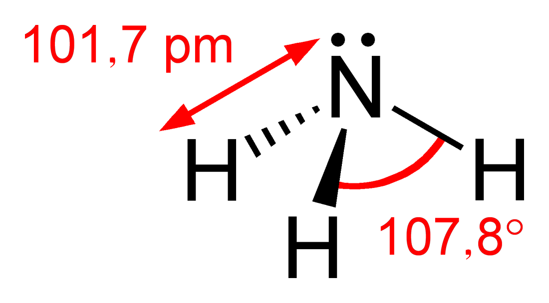 Diagram of AMMONIA molecule with dimensions The image is copied from Image:Water molecule dimensions.png. It was drawn by Dysprosia.Structure and dimensions of the ammonia molecule, NH3. Dimensions from: Greenwood, N. N.; Earnshaw, A. (1997) Chemistry of the Elements (2nd ed.), Oxford:Butterworth-Heinemann, pp. p. 423 ISBN: 0-7506-3365-4.